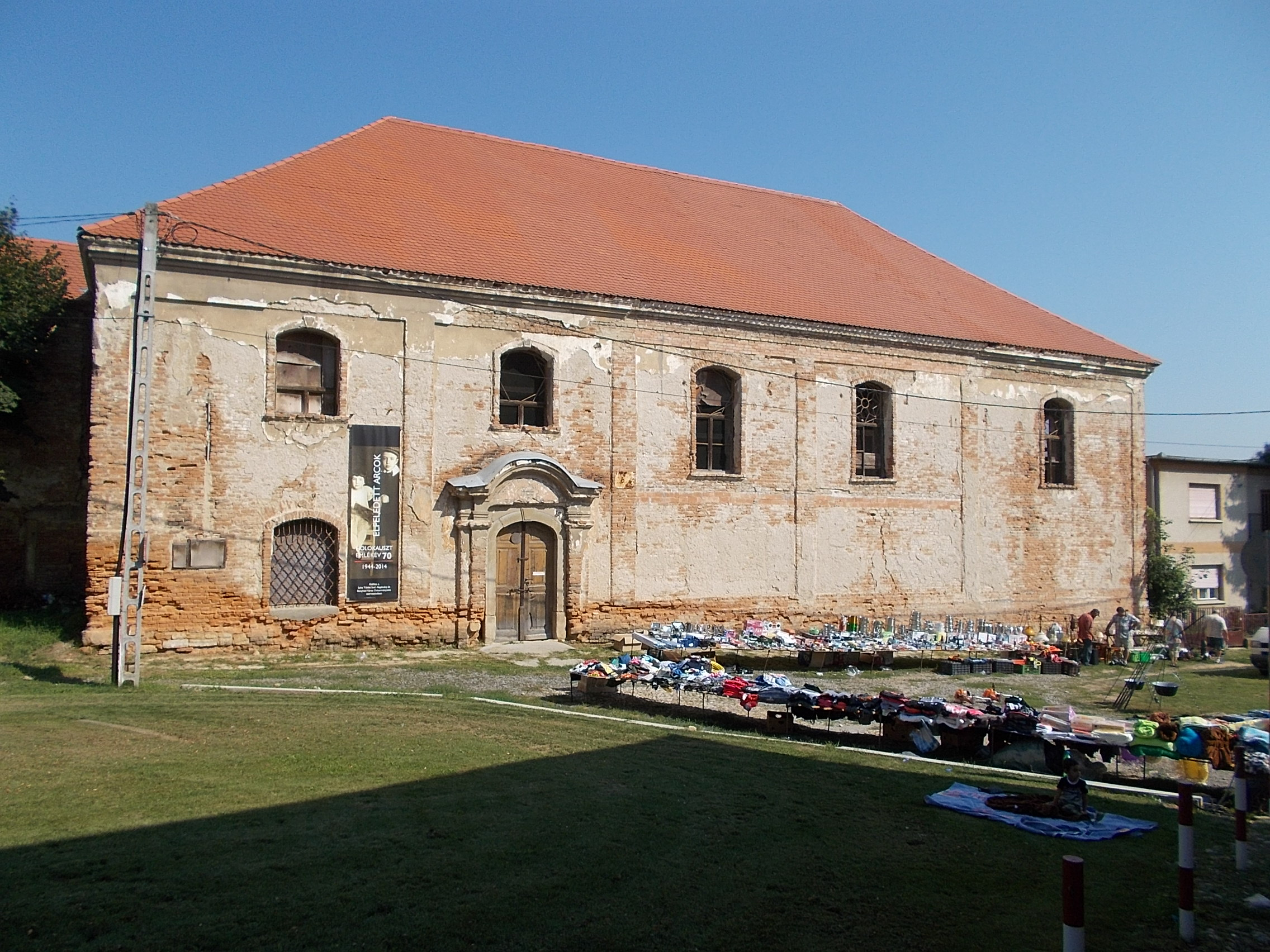 Neolog Old Sinagogue - Bonyhád, Tolna County, Hungary.